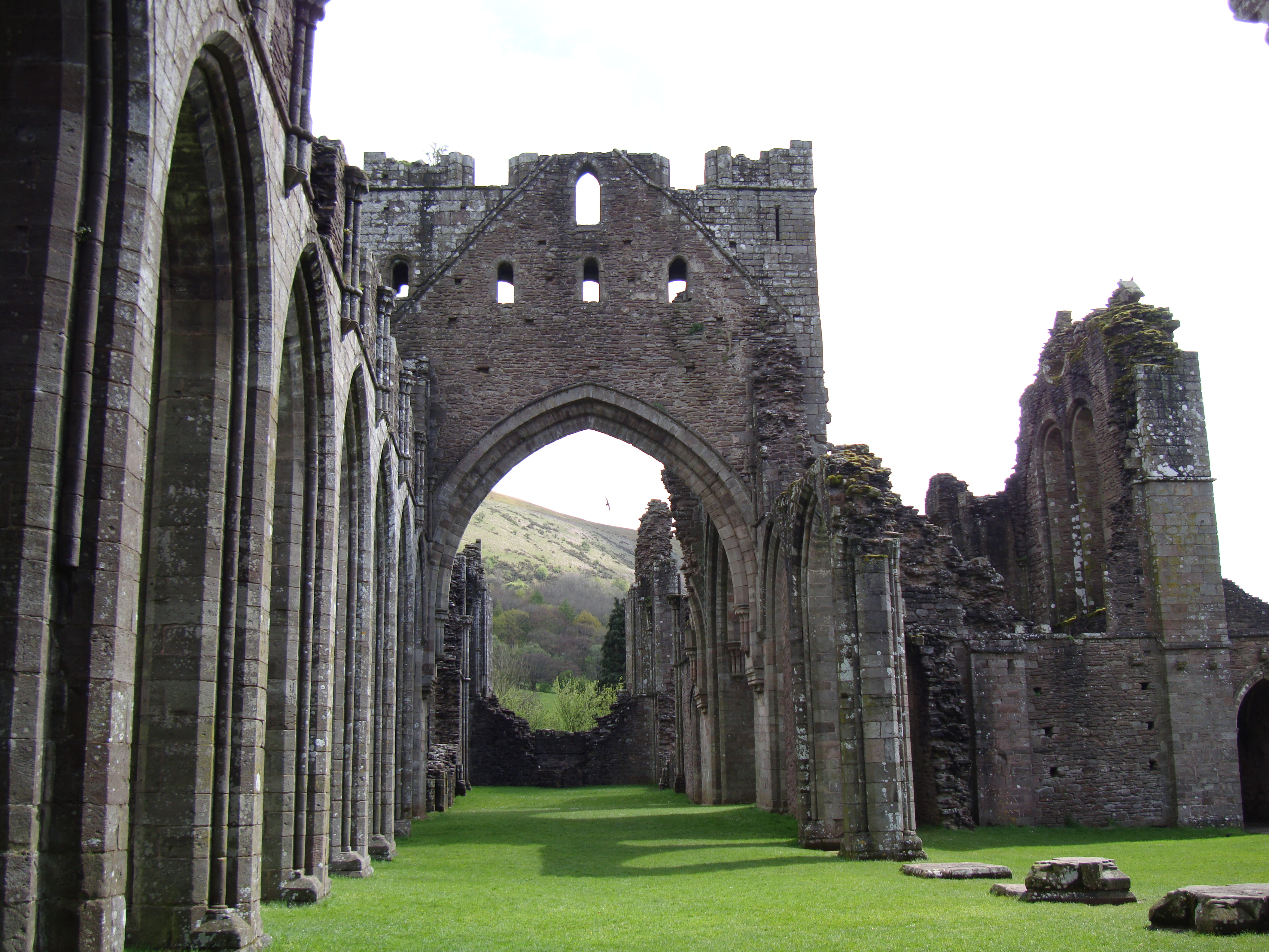 Photograph of the remains of Llanthony Priory, Monmouthshire, Wales